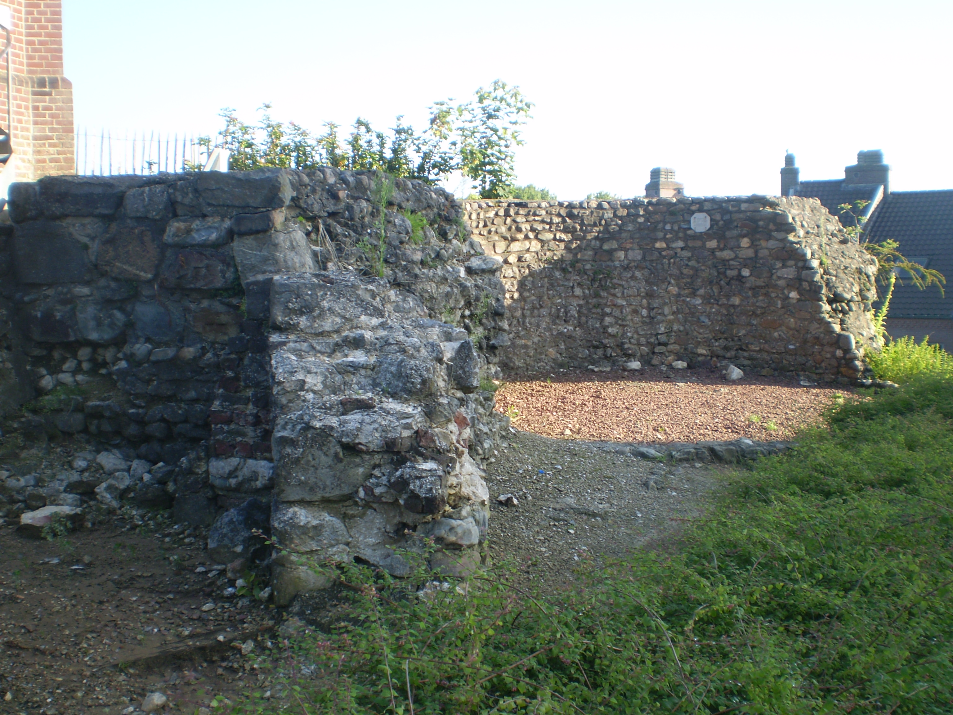 Foundations of the motte-and-bailey castle in Kessenich (Belgium)